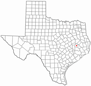 Map of Texas, dot on Huntsville